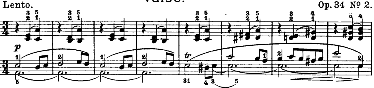 Excerpt from Chopin's Op 34, containing three waltzes.